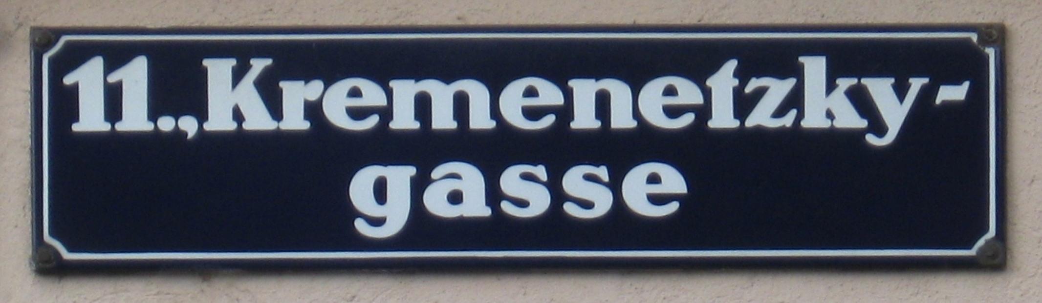 Street name sign for Johann Kremenezky in Simmering, 11th district of Vienna.